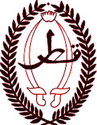 State of Qatar